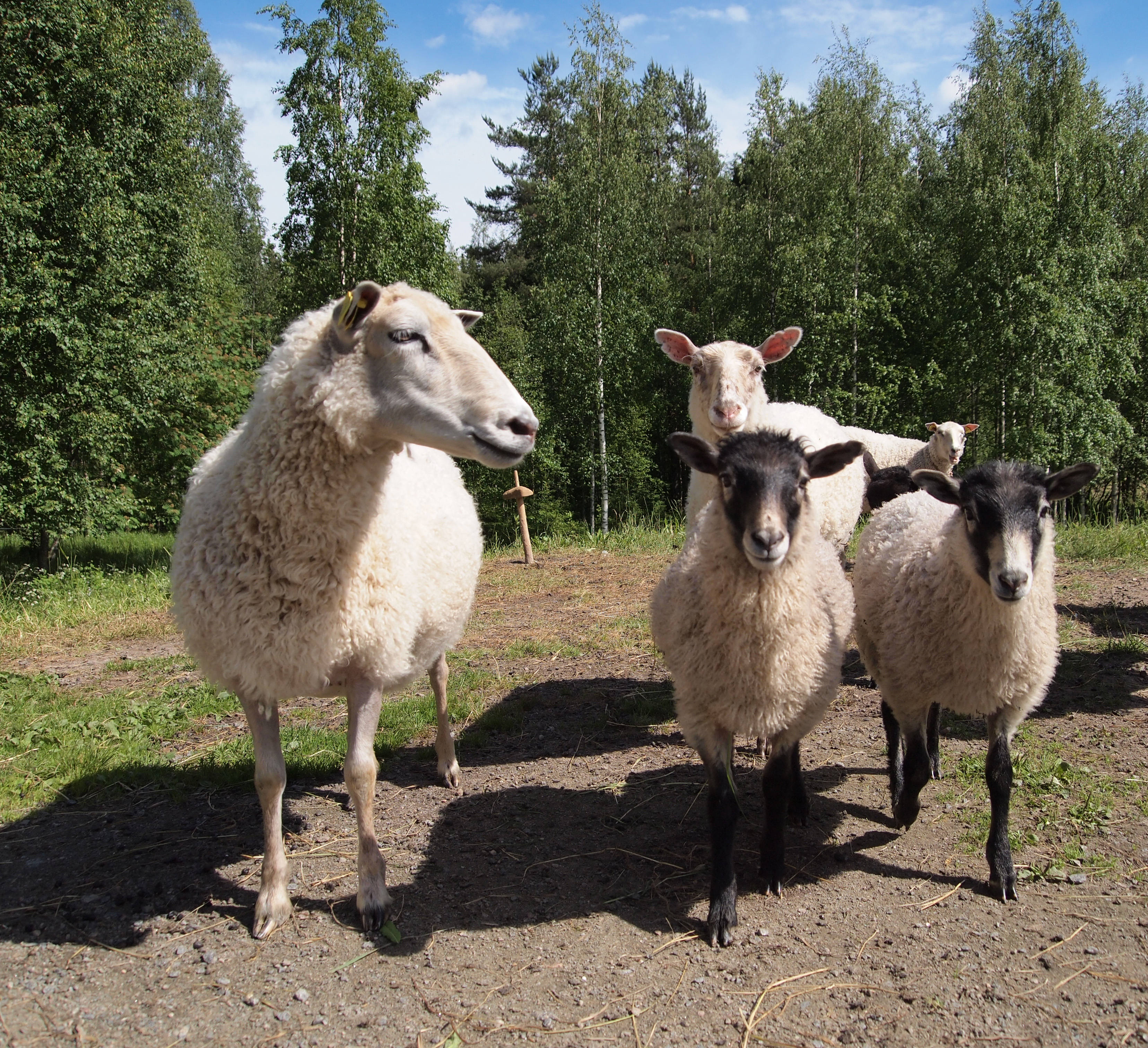 Sheep in Pappilanvuori district, Jyväskylä. This photograph was taken with an Olympus E-PL1